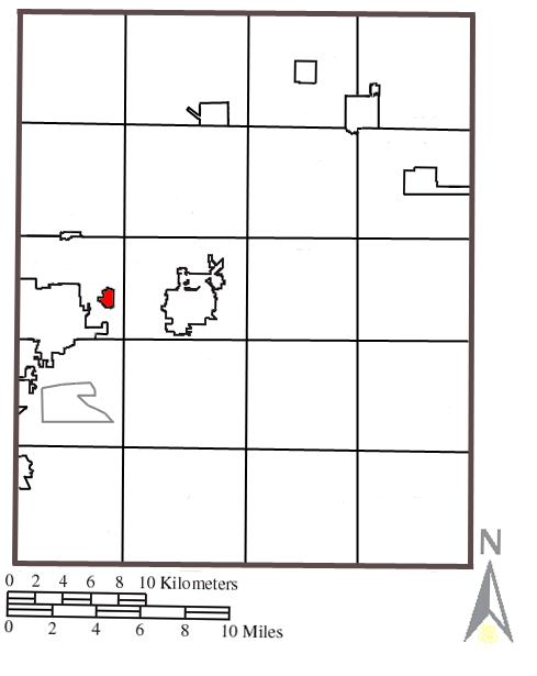 Map of Portage County, Ohio with the village of Brady Lake highlighted.